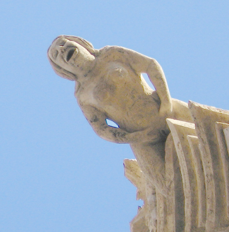 Gargola de la Llotja de València